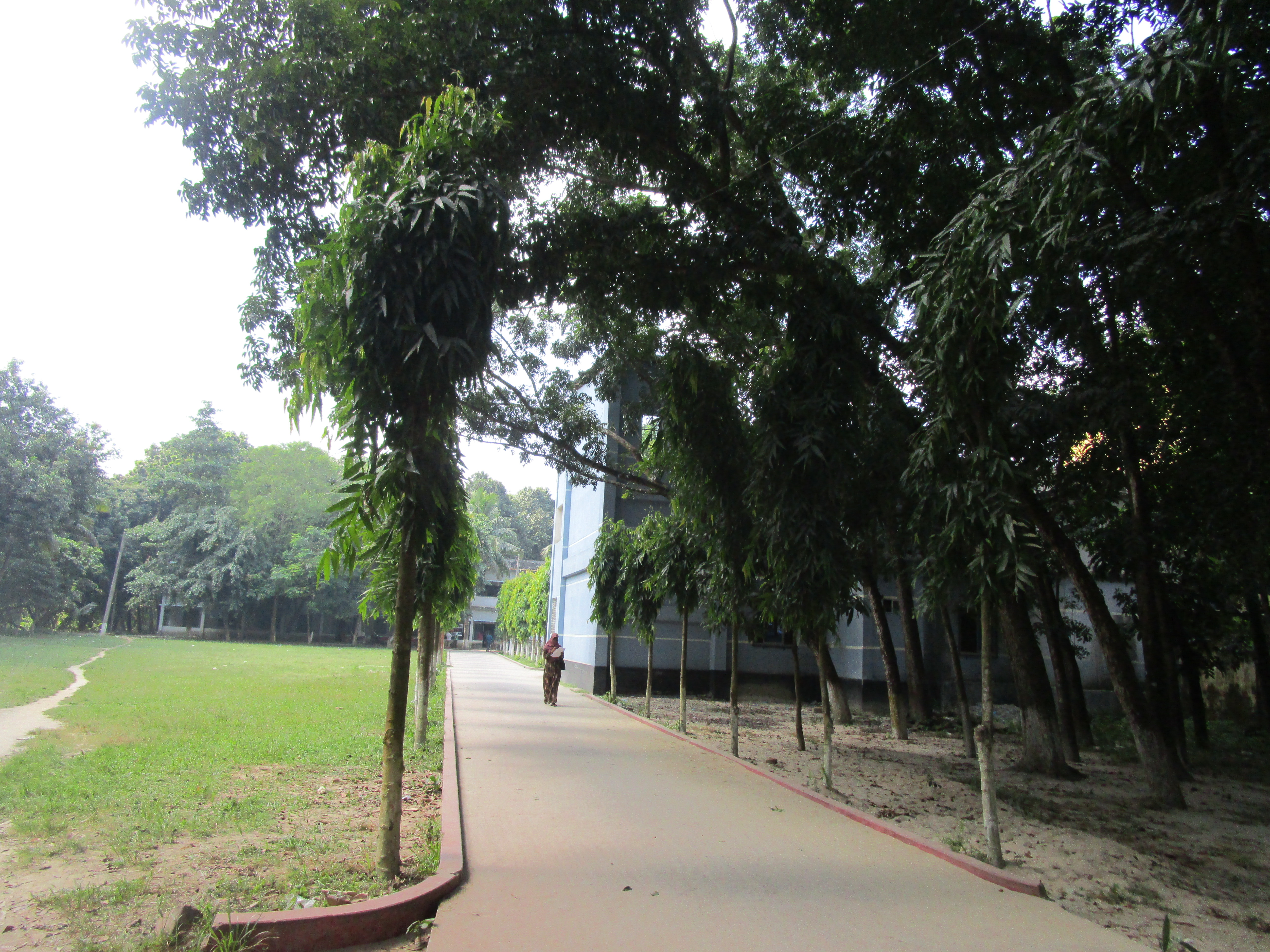 The Campus of Thakurgaon Govt. Womens College.